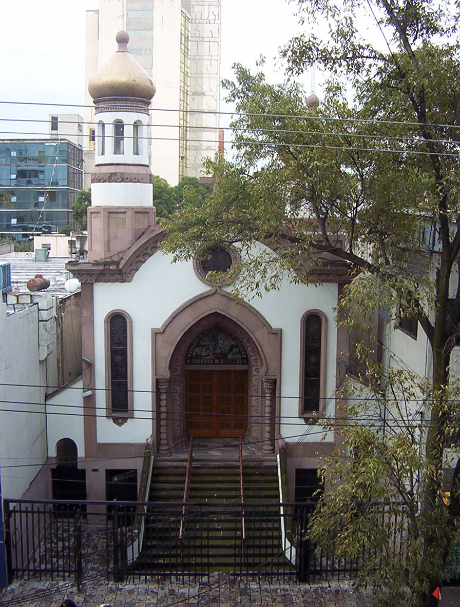 Orthodox cathedral of the Ascension of Jesus Christ in Mexico, D.F.